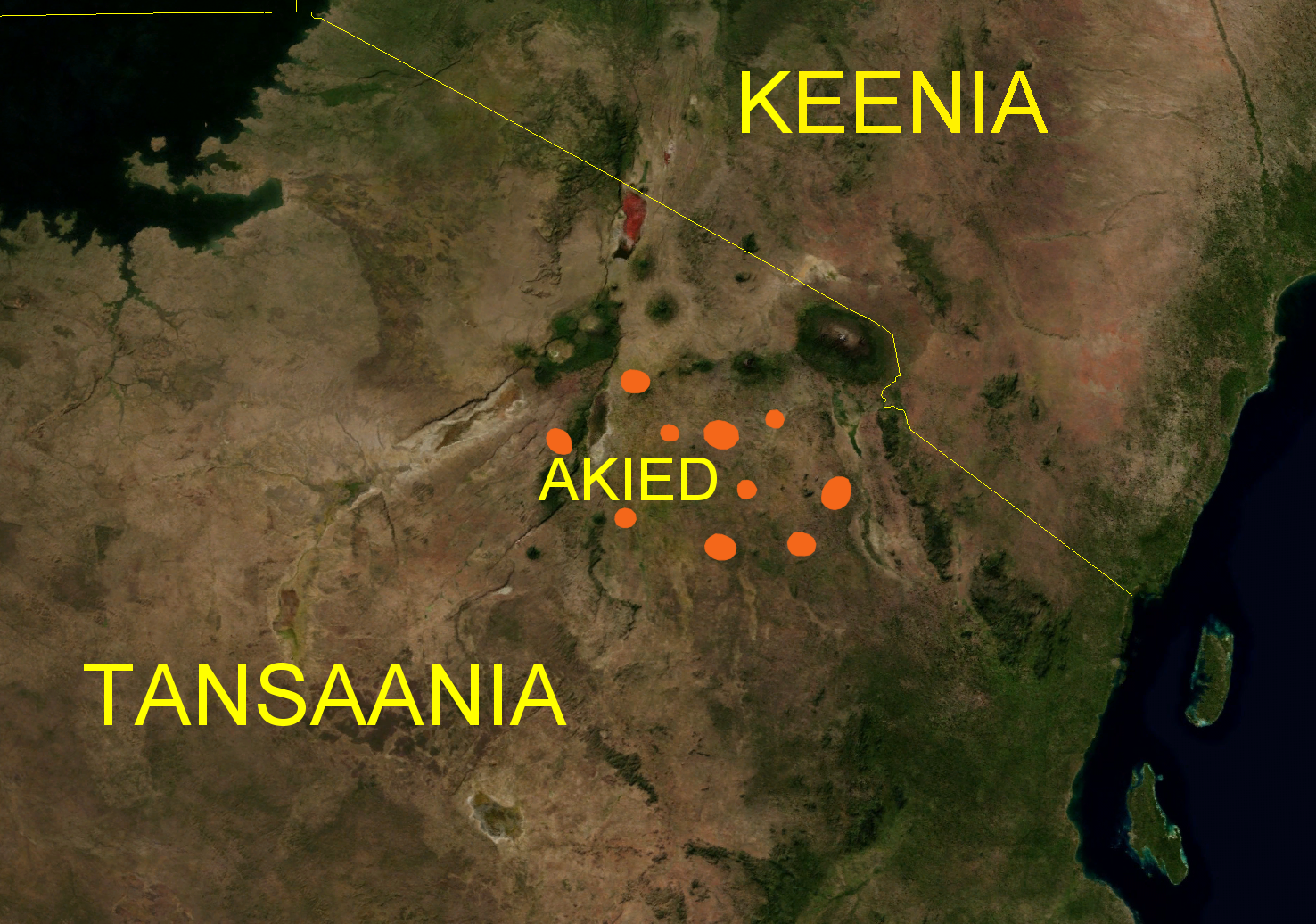 Akie tribe in Tanzania